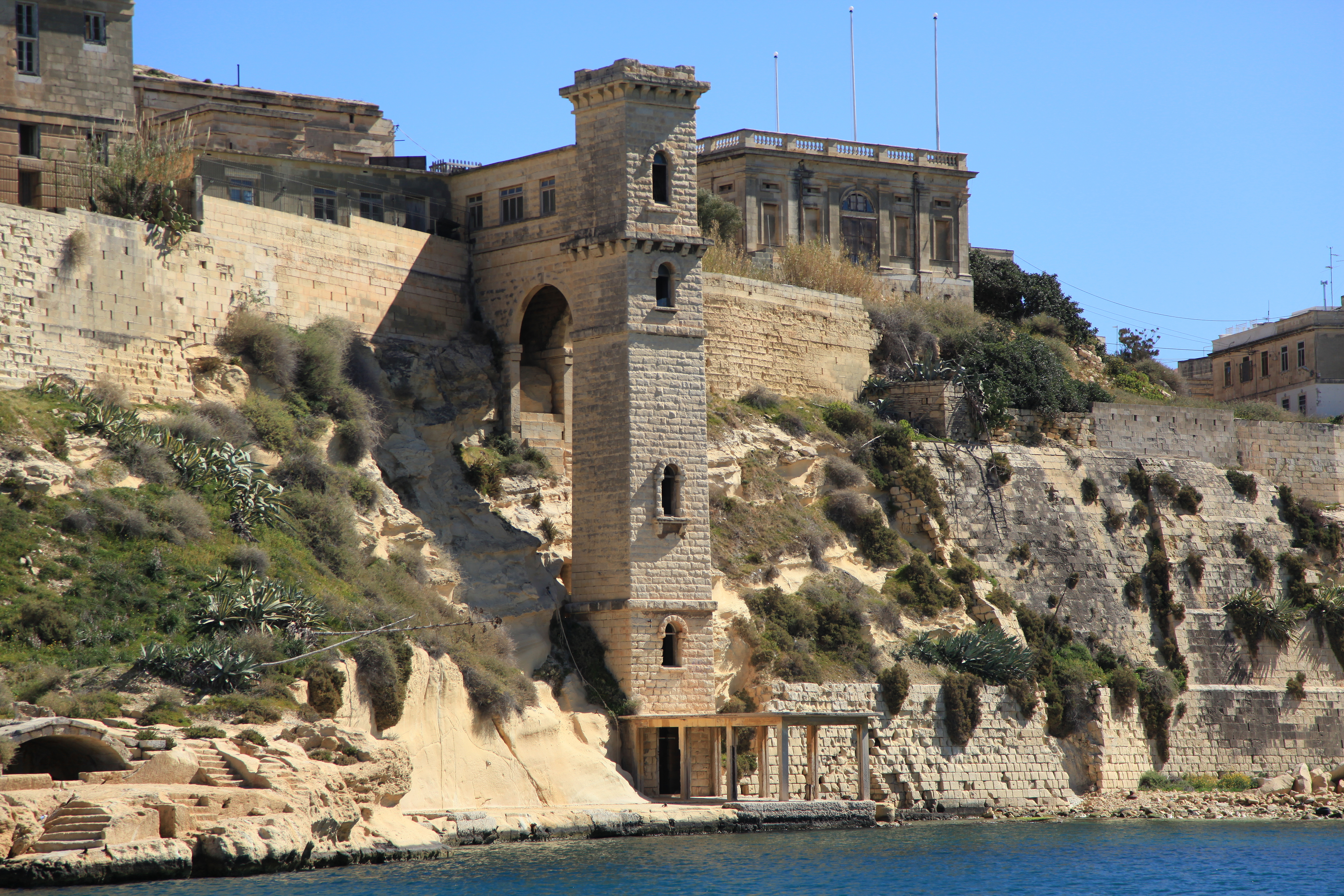 View from a Malta sightseeing two harbours cruise boat to the Bighi hospital at Triq Marina in Kalkara, Malta